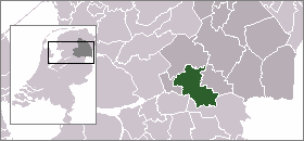 Location map of Dutch municipality in Drenthe